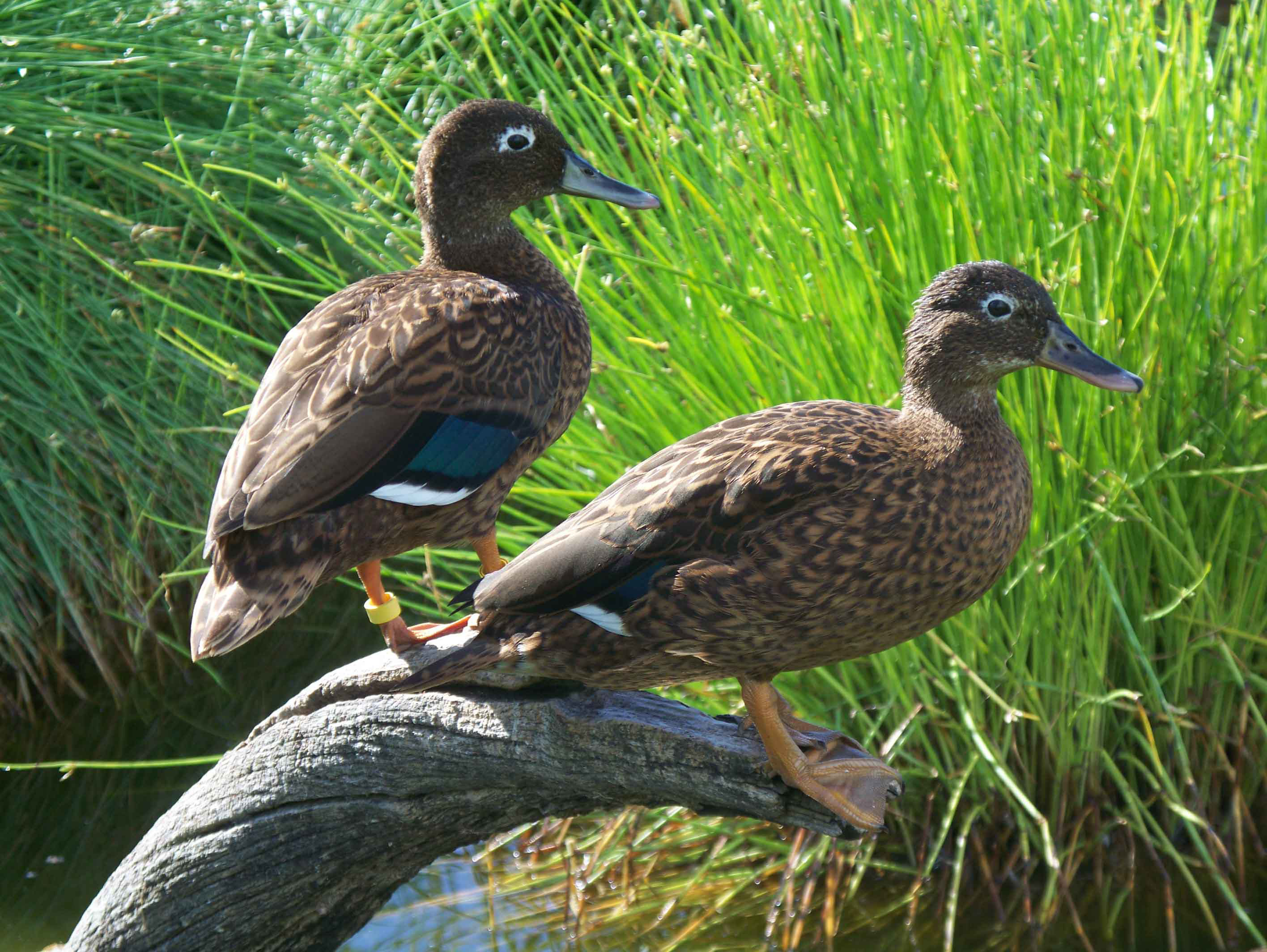 A male/female pair of Laysan ducks at Midway Atoll National Wildlife Refuge 2008 Photo by: John Klavitter/FWS